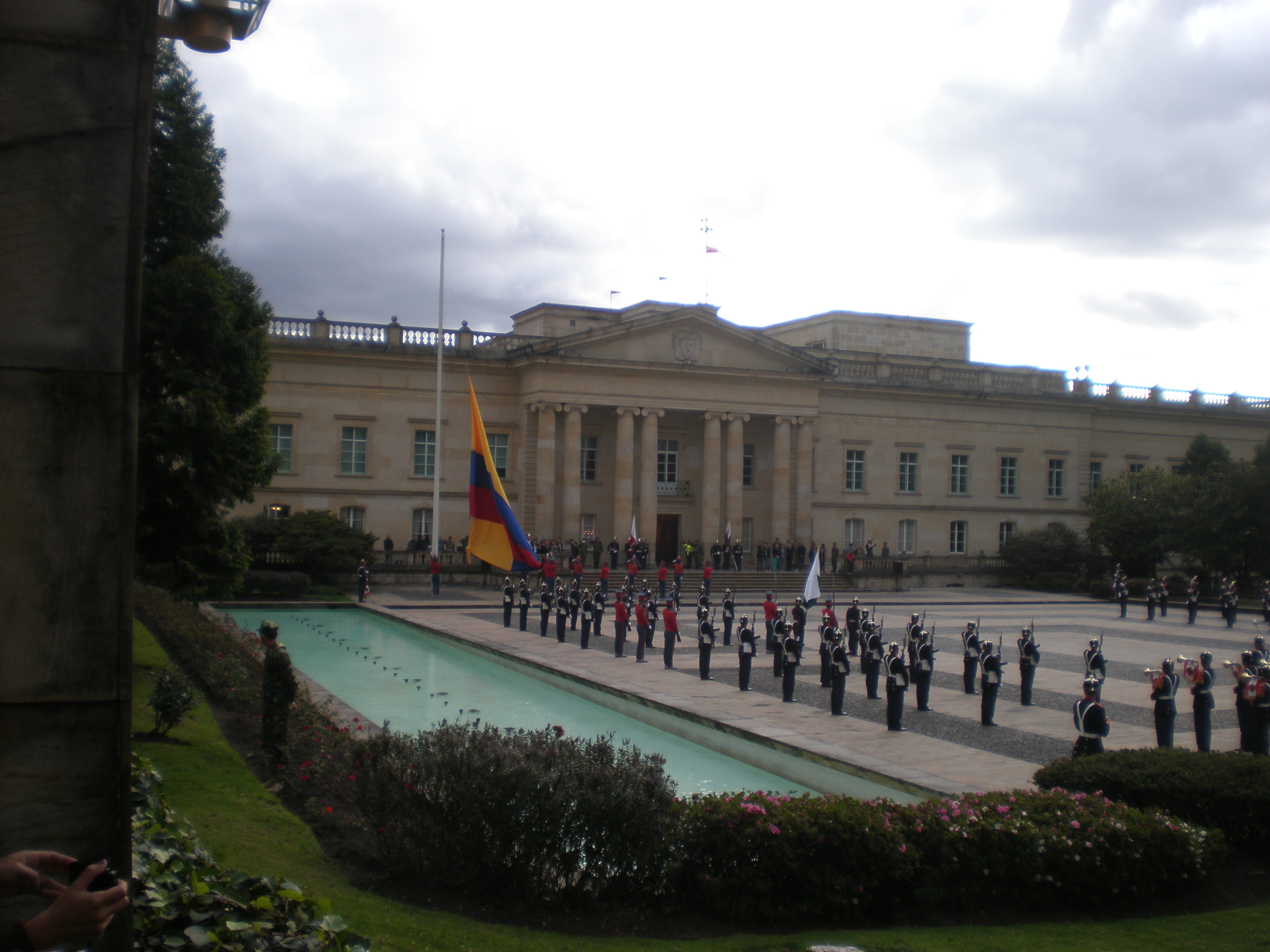 Residencia presidencial, situada atrás del Capitolio Nacional. vista de la fachada posterior, con cambio de guardia